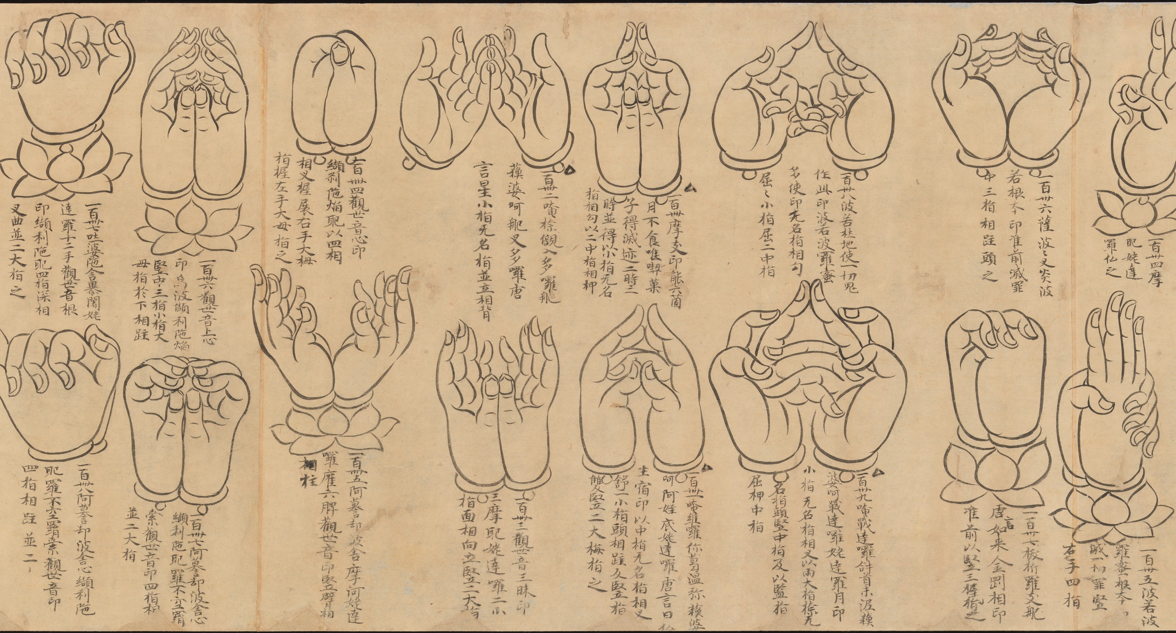 Japan; Handscroll; Paintings